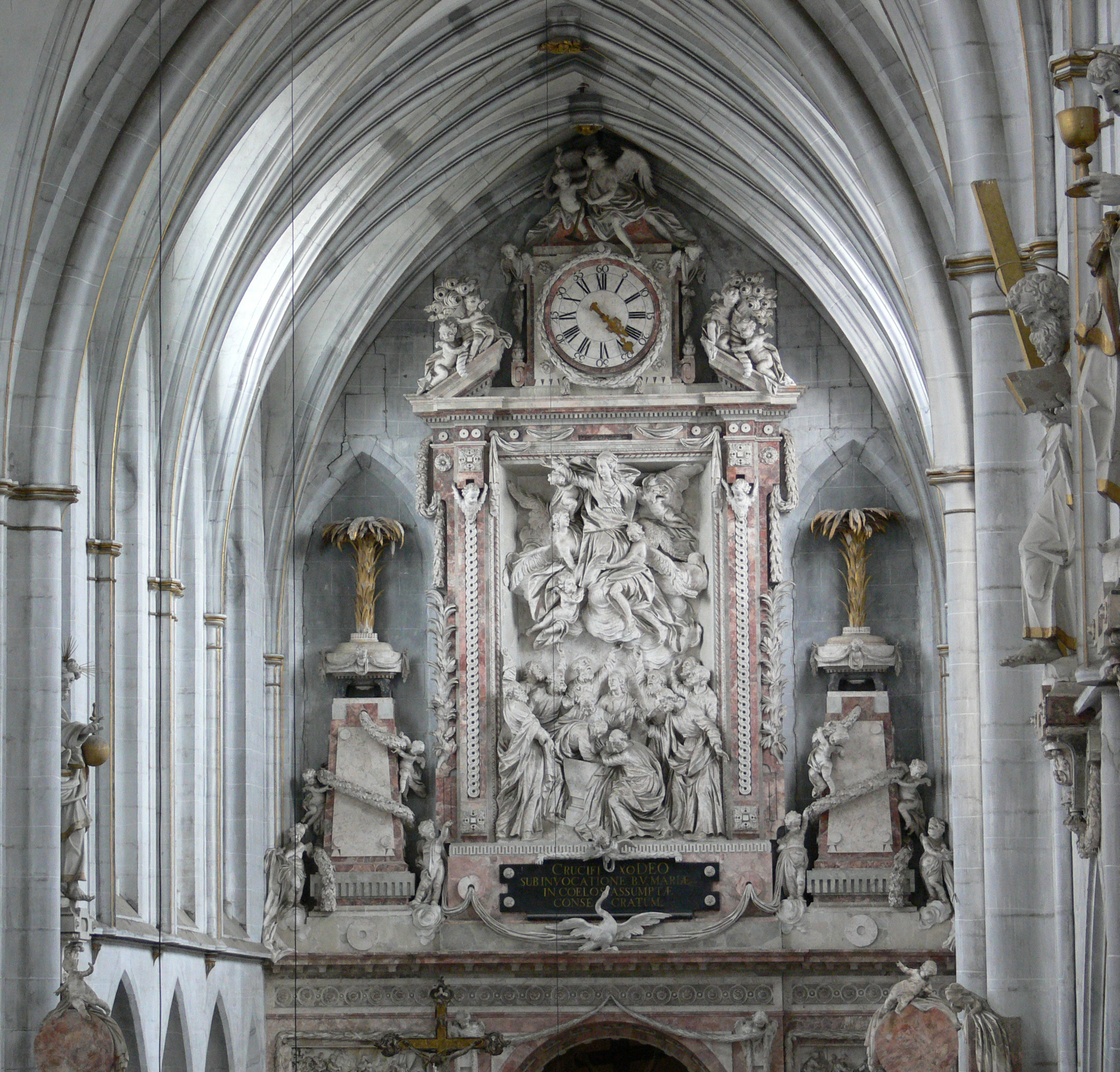 Description: Verenaaltar Source: User:Saberhagen Location: Salemer Münster, Salem (Baden), Germany Source: own photograph by uploader